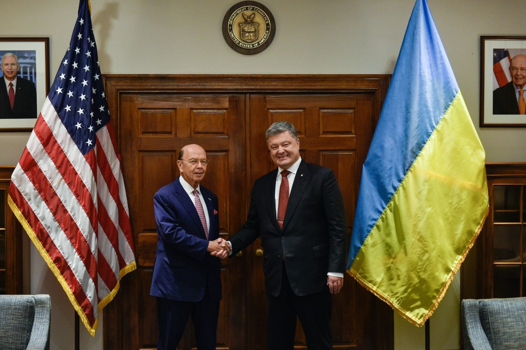 Working visit to the United States of America. Wilbur Ross and Petro Poroshenko